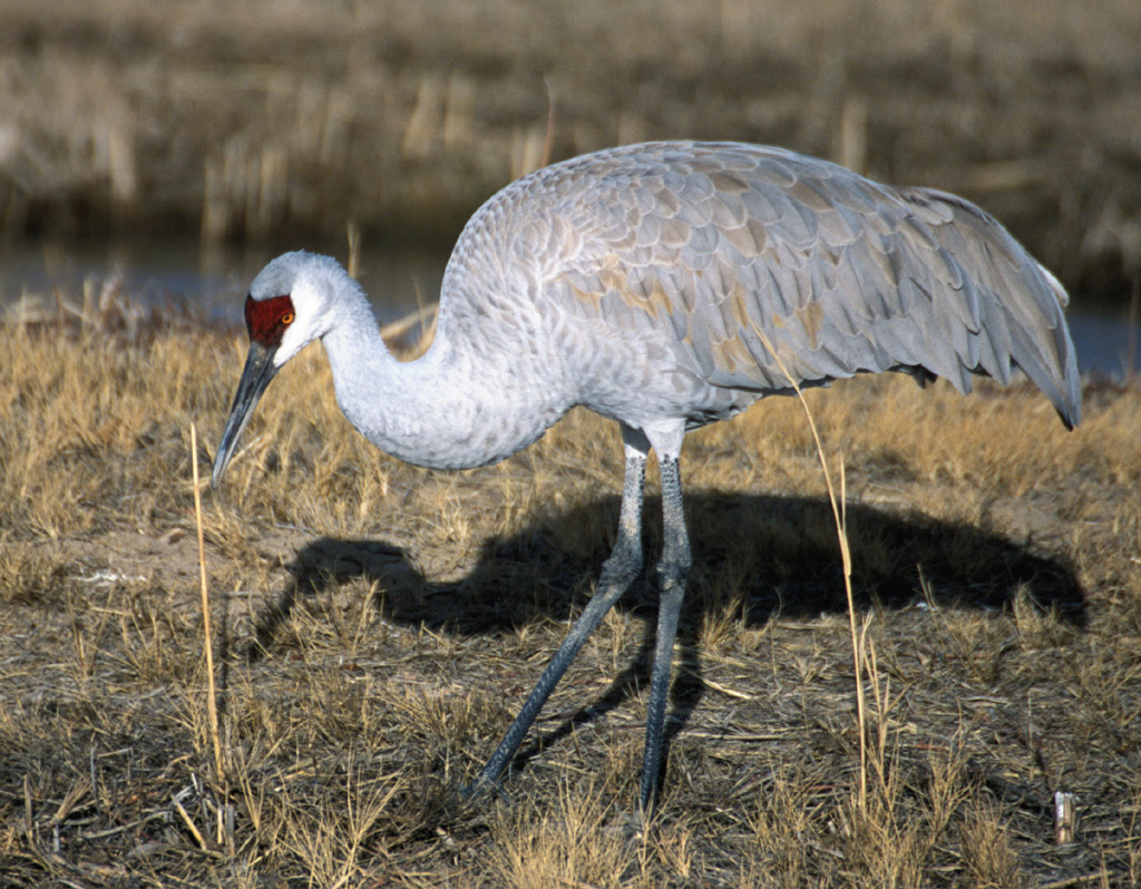 Sandhill Crane , Grus canadensis, photograph